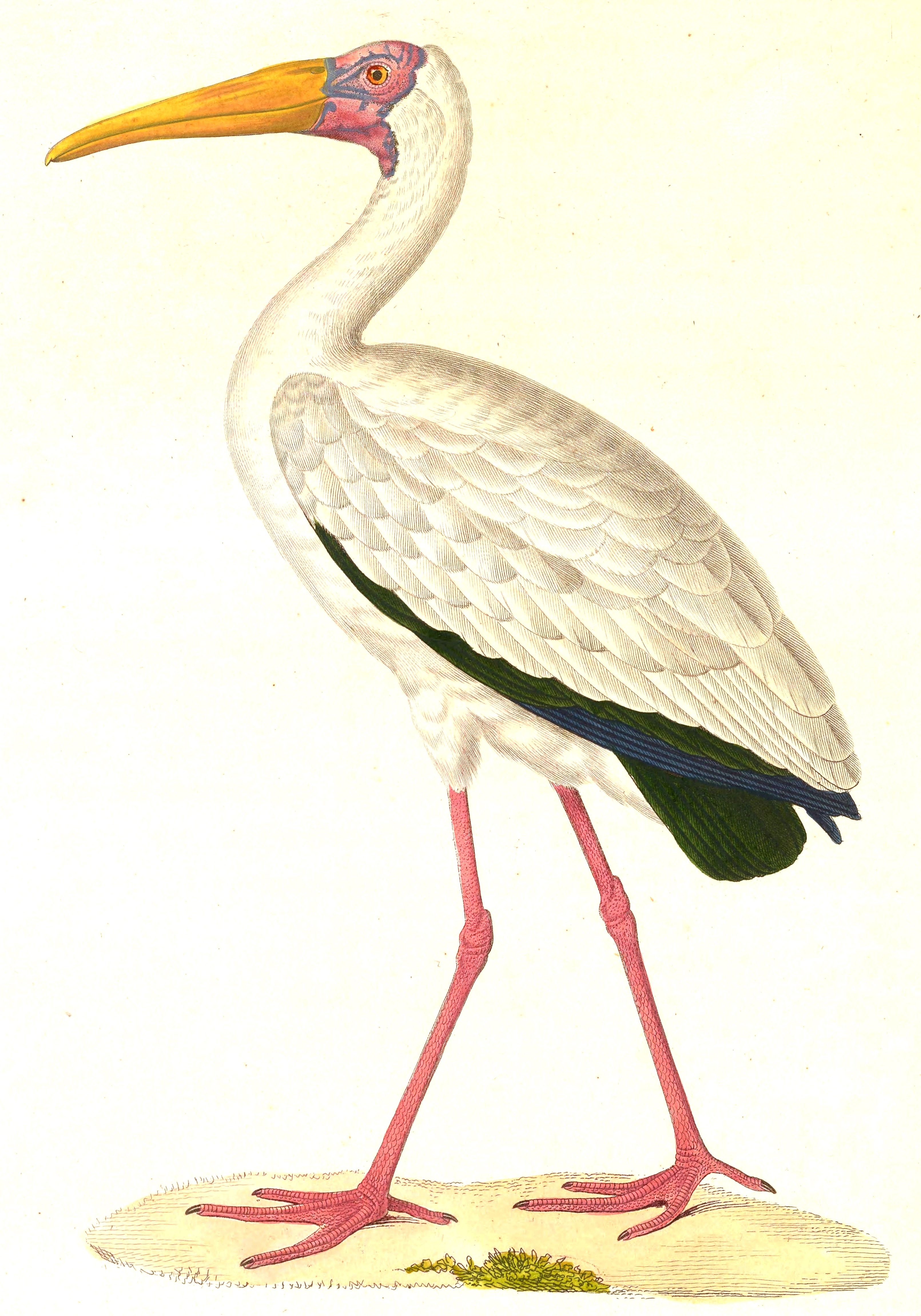 « Tantalus lacteus » = Mycteria cinerea (Milky Stork) - adult male